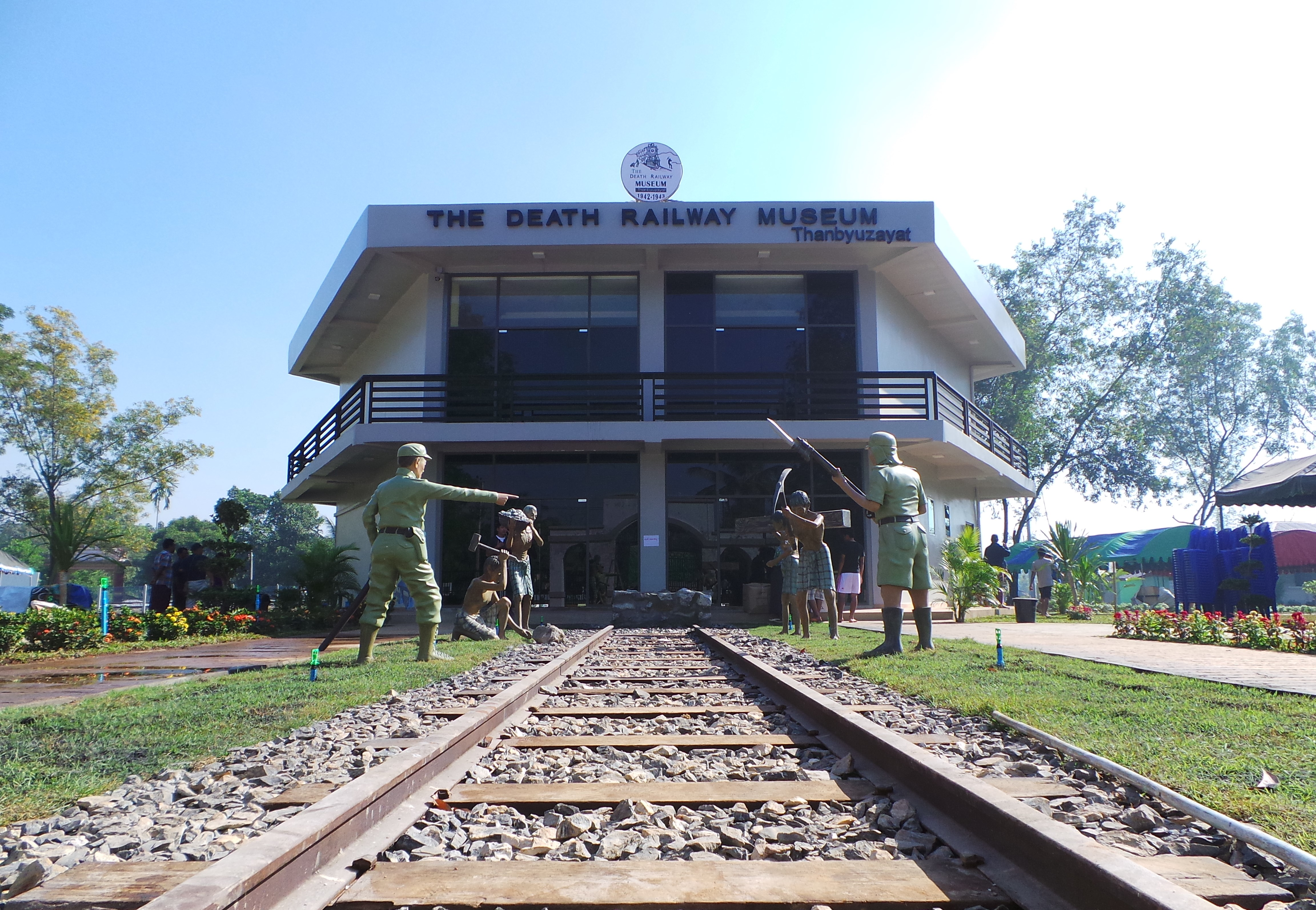 The Death Railway Museum in Thanbyuzayat, Mon State, Myanmar မြန်မာဘာသာ: သေမင်းတမန် မီးရထားလမ်း ပြတိုက်၊ သံဖြူဇရပ်မြို့၊ မွန်ပြည်နယ်၊ မြန်မာ။